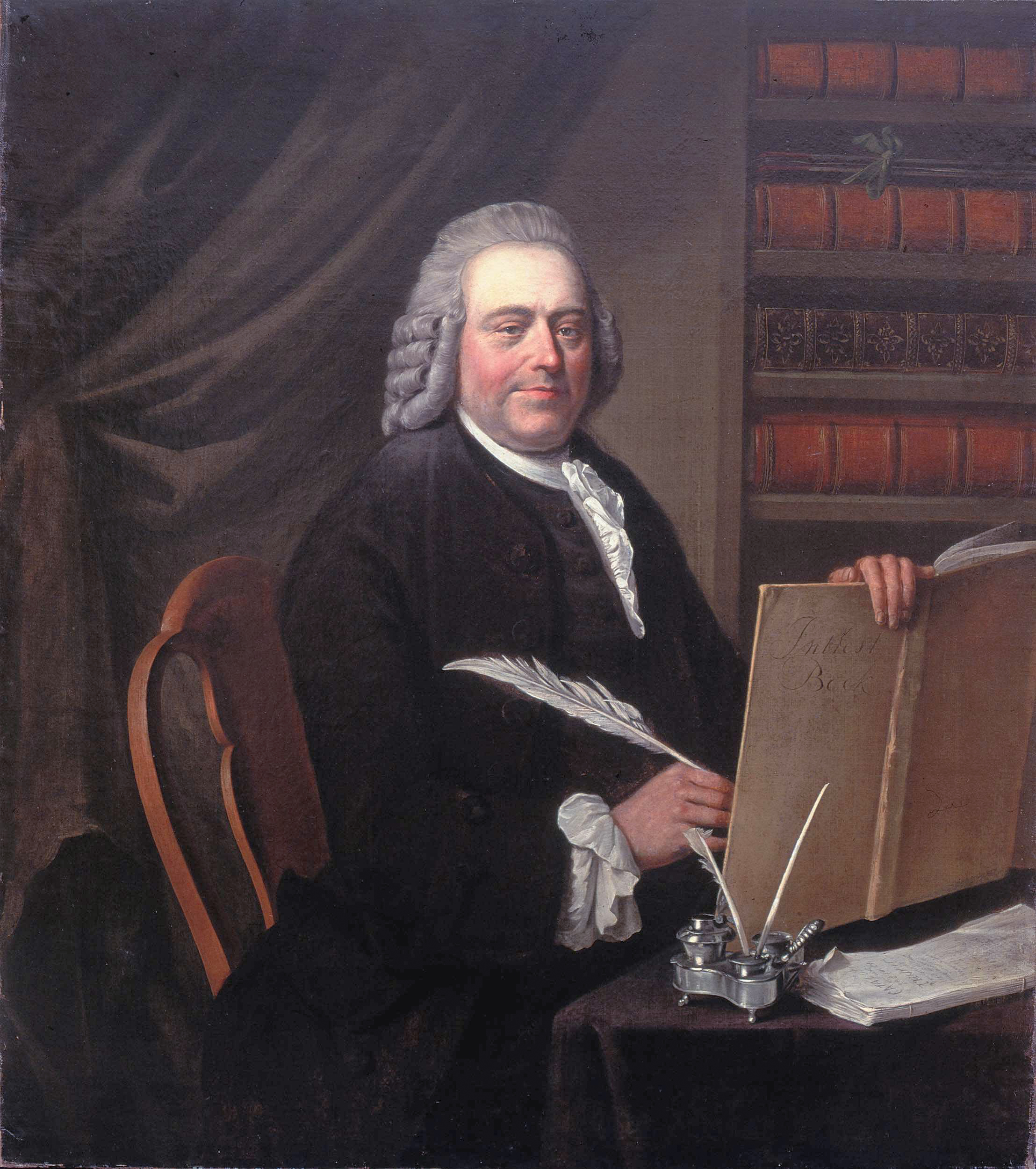 Wybrand Hendriks (after a painting by Frans Decker, now lost), Portrait of Pieter Teyler van der Hulst, 1787, oil on canvas; 115 x 103 cm. Collection Teylers Museum, Haarlem, the Netherlands.